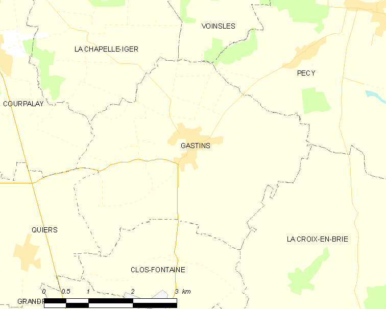 Map of French municipality Gastins